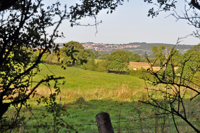 Farmland adjacent to Cosmeston Lakes The view is to the north-east of Barry and Pencoetre Woods across Cog Moor.